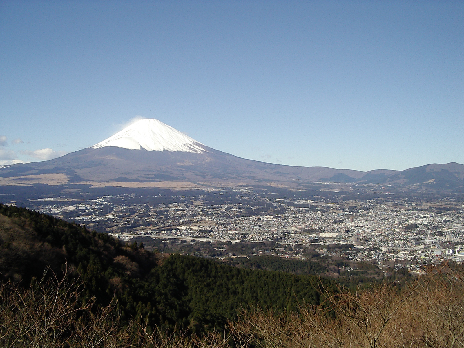 The view of Gotemba. The picture was taken by myself. 静岡県御殿場市街地の様子。